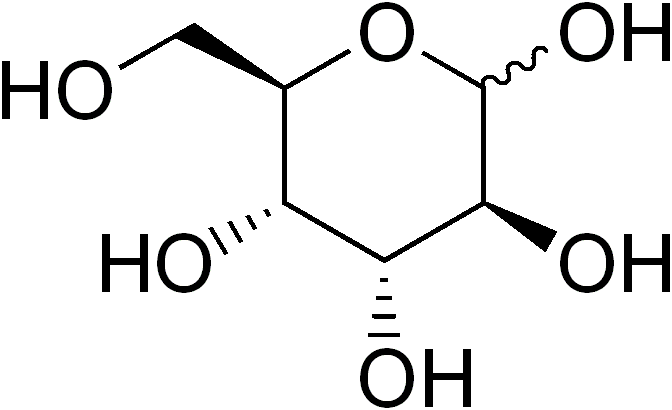 chemical structure of altrose